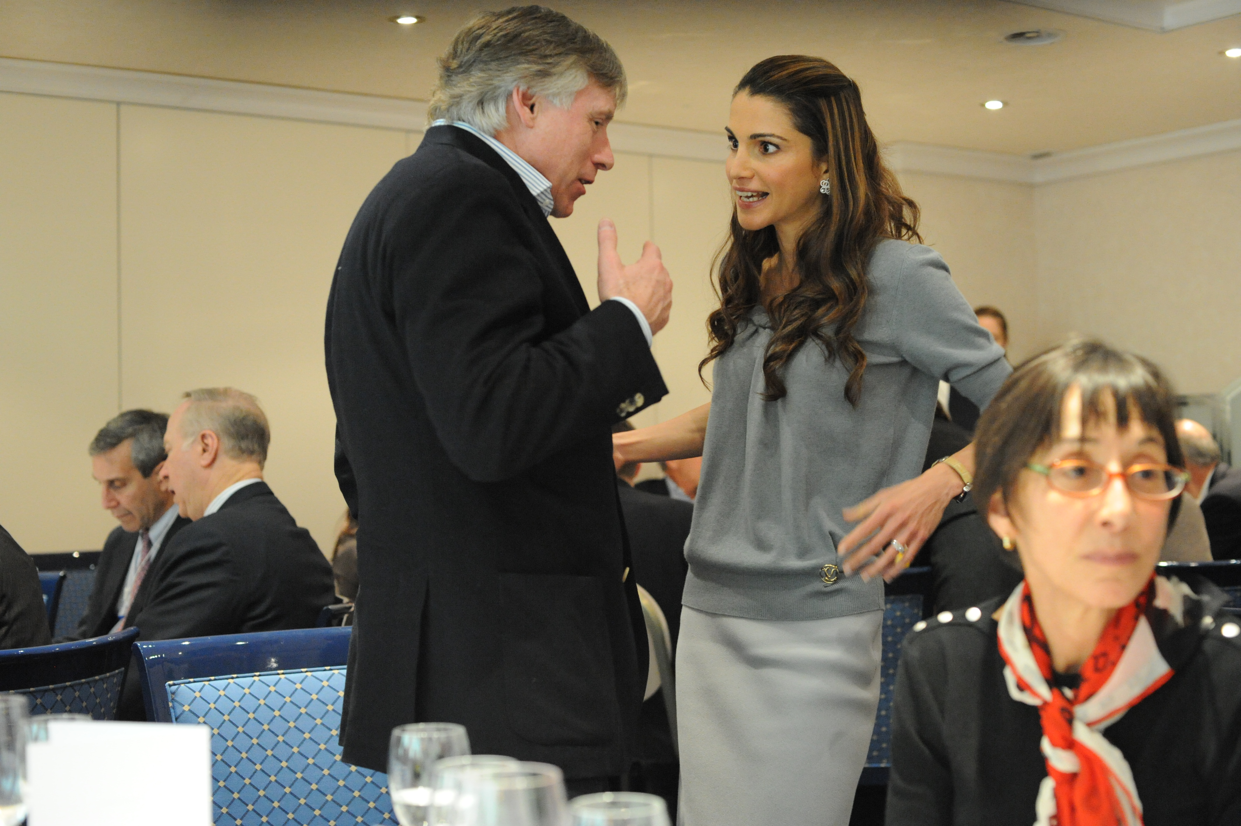 Queen Rania of Jordan with Lee Bollinger of Columbia University.Queen Rania of Jordan